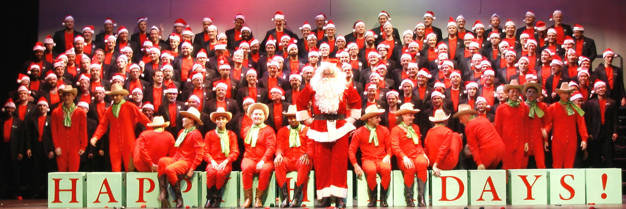 Gay Mens Chorus of Washington DC - Holiday Concert "Baby, It's Gay Outside" performed at the Lincoln Theatre